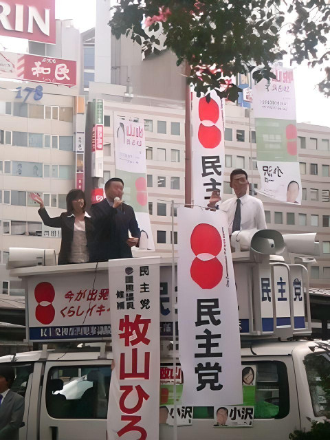 Democratic Party of Japan politician Hiroe Makiyama election campaigning